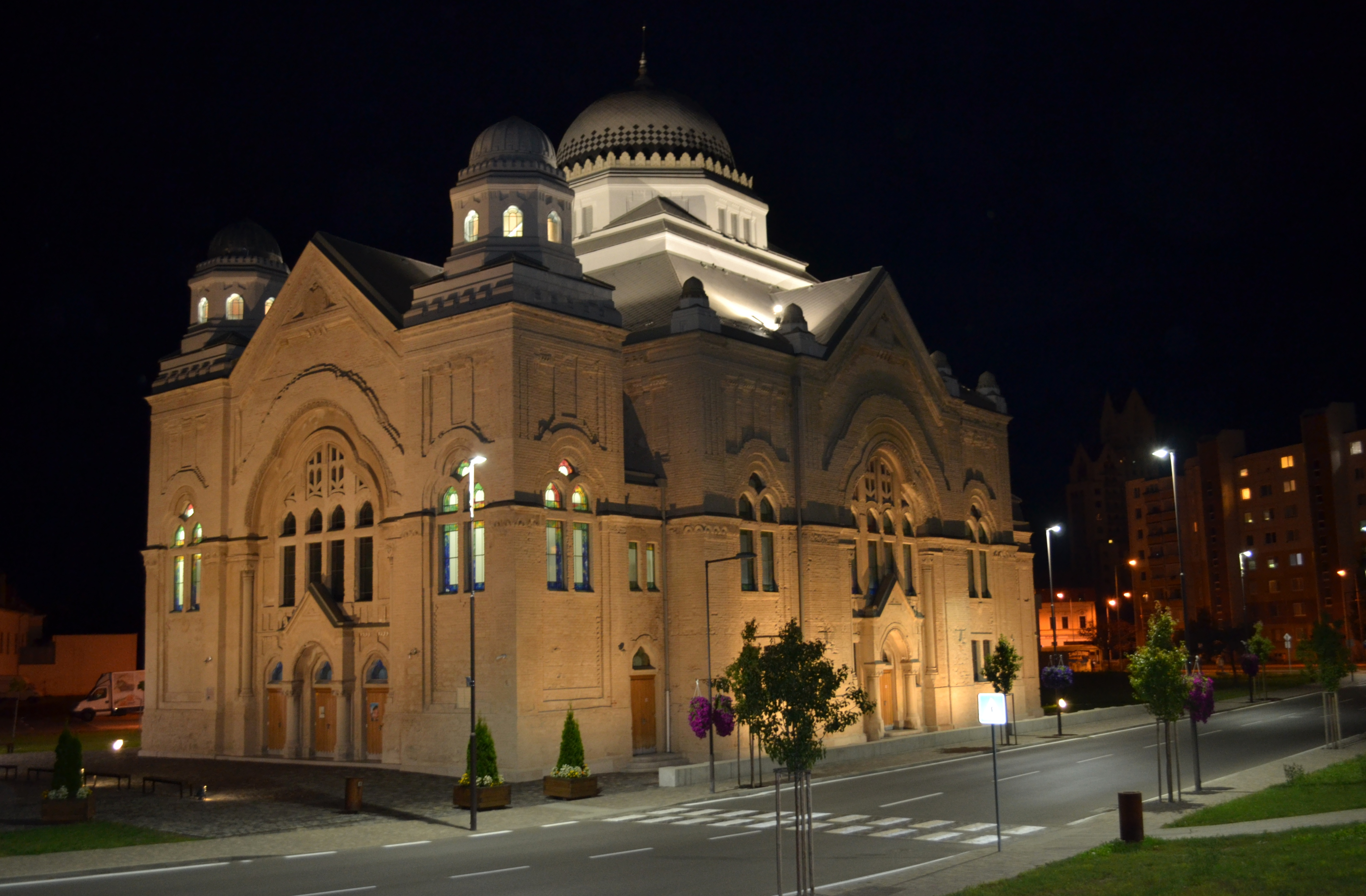 Synagogue has been built between 1923-1925 on the site of an earlier Moorish-style building from 1863. It was designed by Hungarian architect Lipót Baumhorn. It was consecrated on 9 of August 1925. It is ranked among the largest synagogues in Europe.